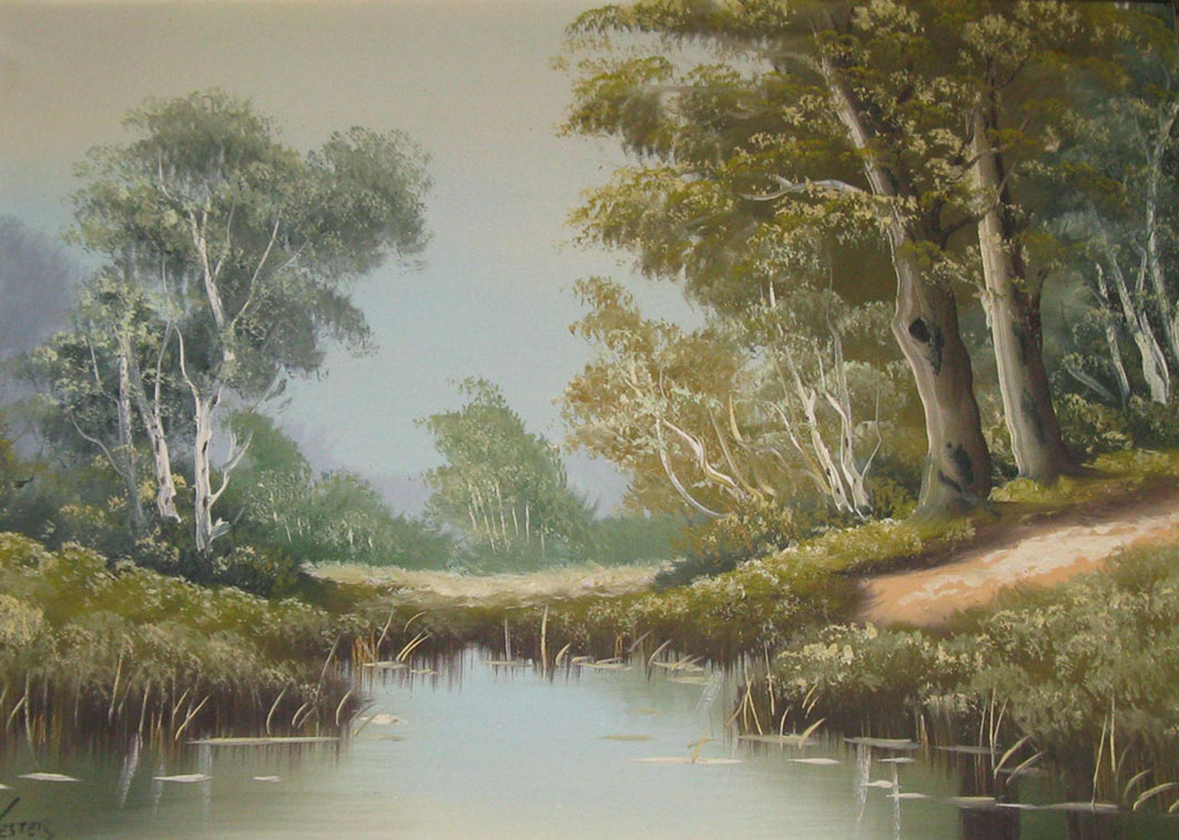 Landscape